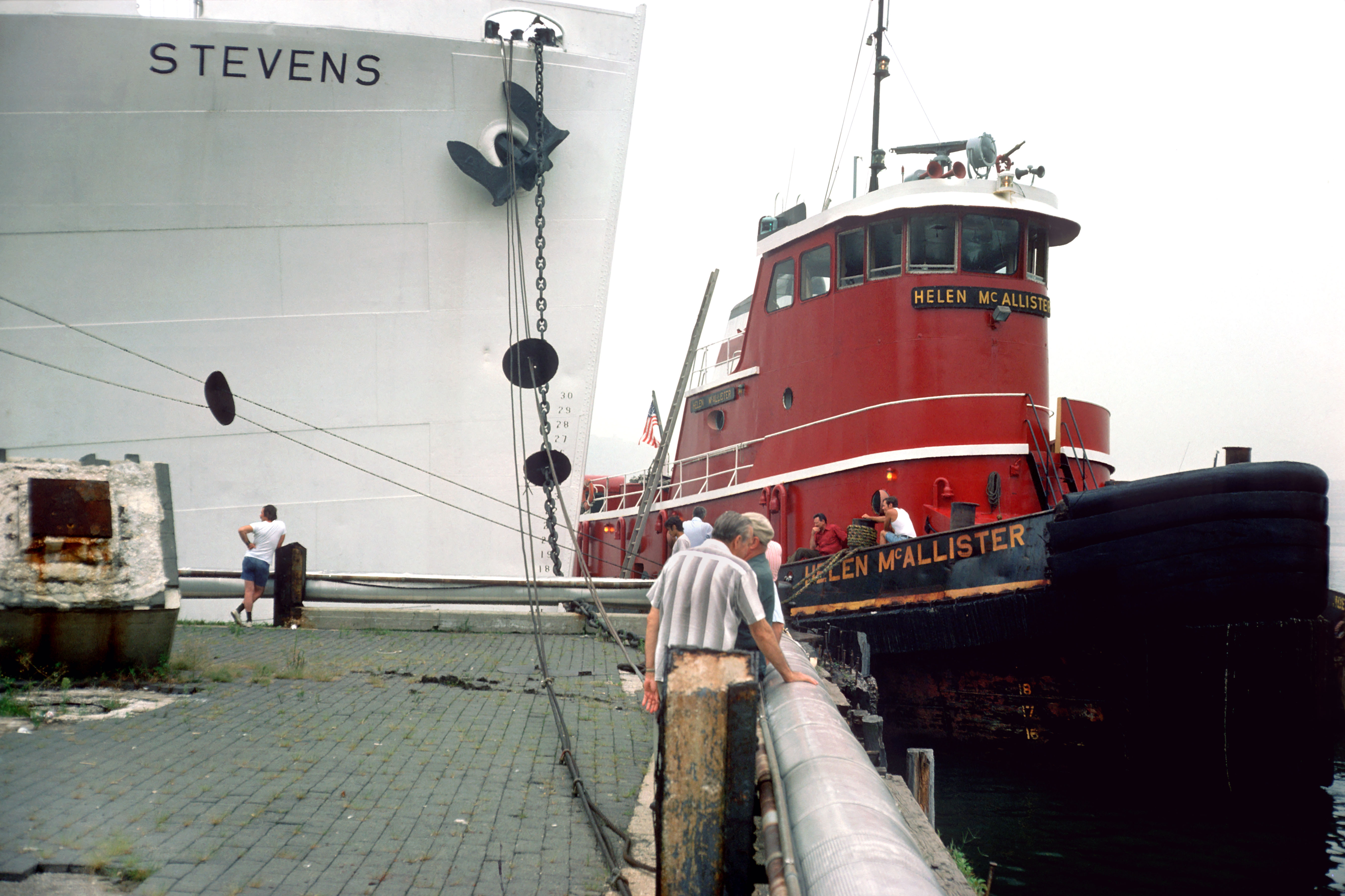 Shrouded in heavy fog, tug boat Helen McAllister prepares to tow SS Stevens on her final voyage. SS Stevens was formerly cruise liner SS Exochorda of the New "4 Aces" fleet of American Export Lines The image was scanned from the original Kodachrome 25 (Daylight) 35mm film image. For other photos, see SS Stevens Gallery